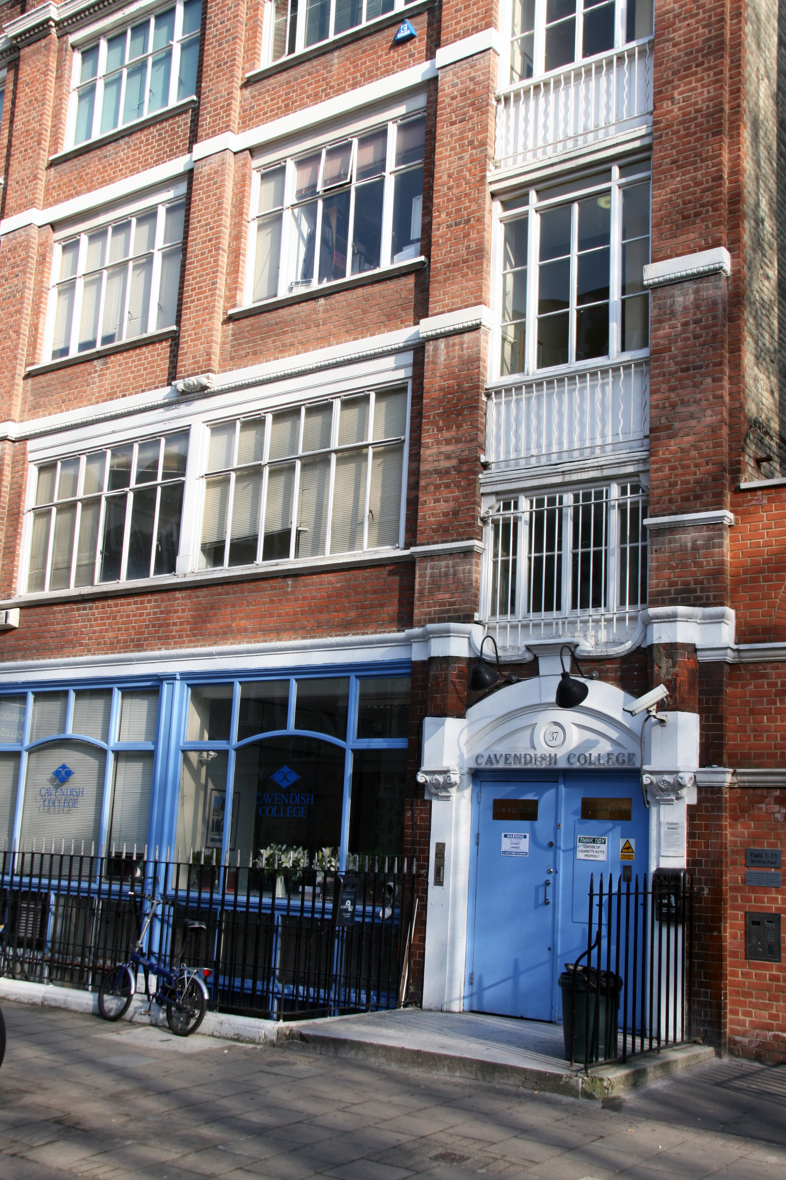 Cavendish College London, 35–37 Alfred Place